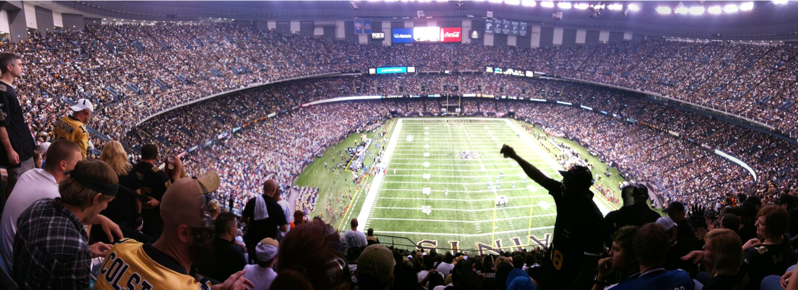 Inside the Superdome, New Orleans.